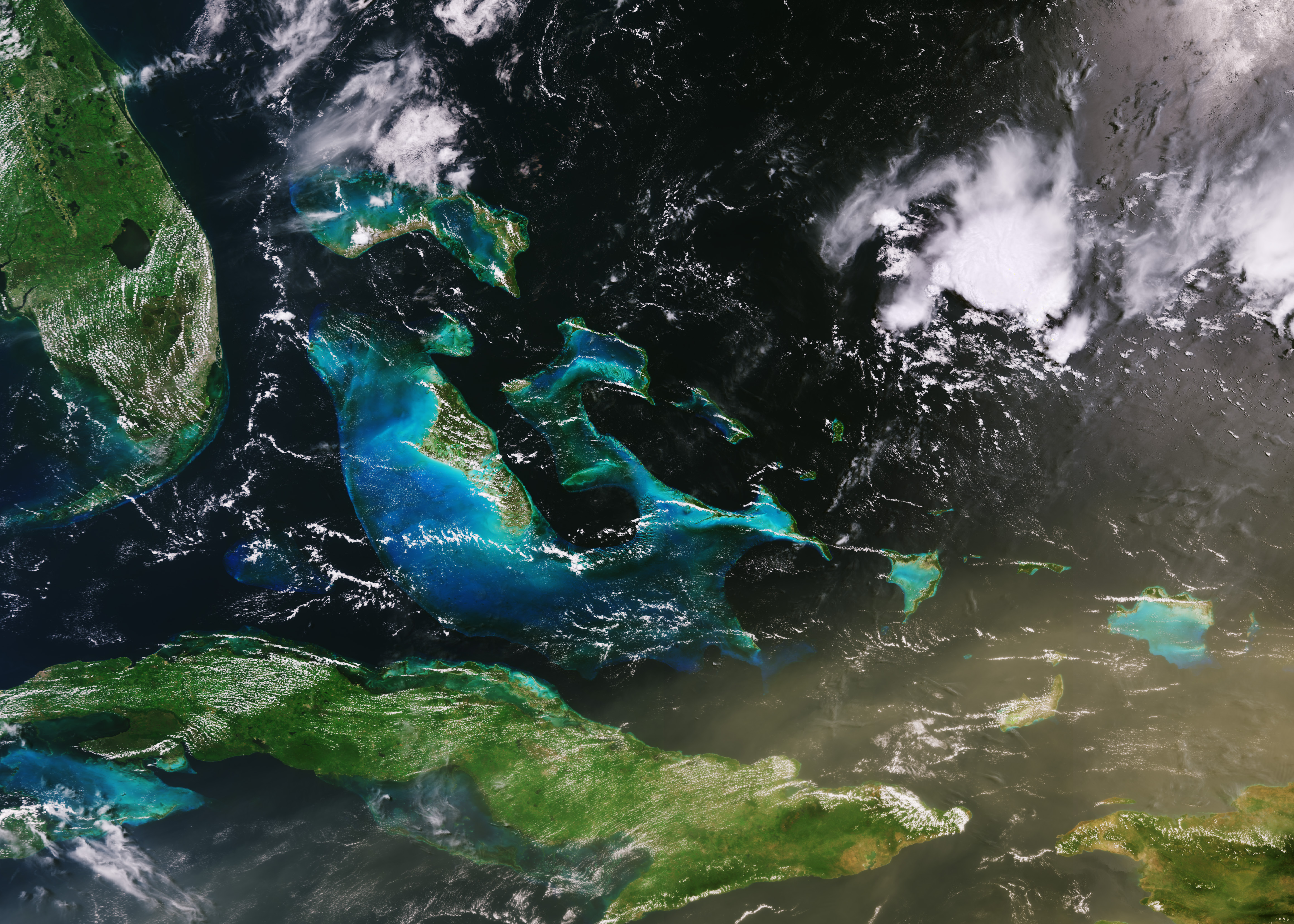 Every summer, the wind carries large amounts of desert dust particles from the hot and dry Sahara Desert in northern Africa across the Atlantic Ocean. Data from the Copernicus Sentinel satellites and ESA’s Aeolus satellite show the extent of this year’s summer dust plume, dubbed ‘Godzilla,’ on its journey across the Atlantic.In this image, captured by the Copernicus Sentinel-3 mission, dust particles can be seen over Cuba on 23 June 2020.Read full story: Satellites track unusual Saharan dust plume